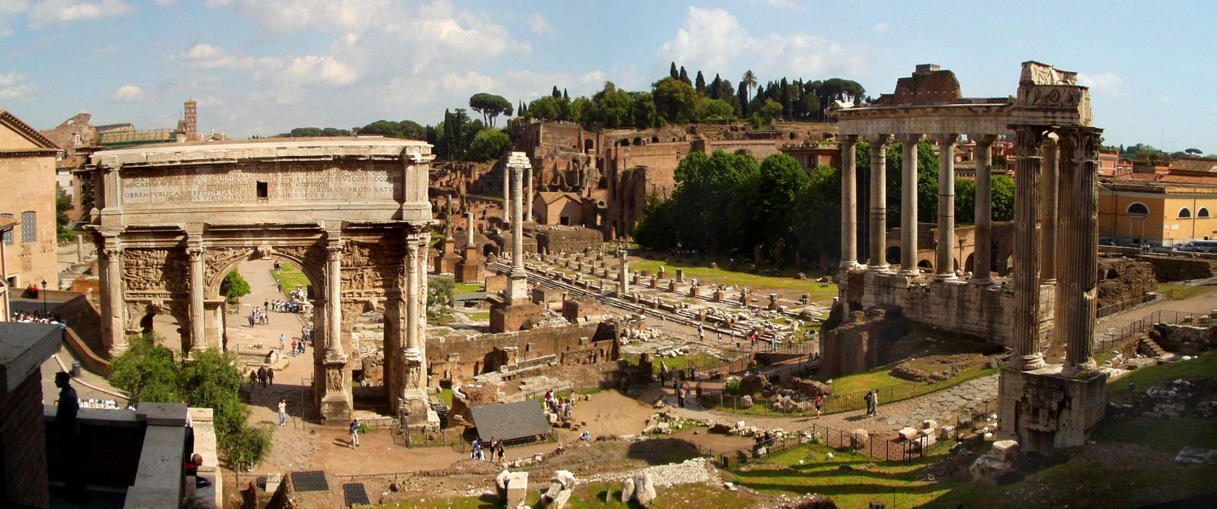 The Roman Forum, Rome, Italy. Taken in two shots and stitched together (hence the slightly distorted geometry).